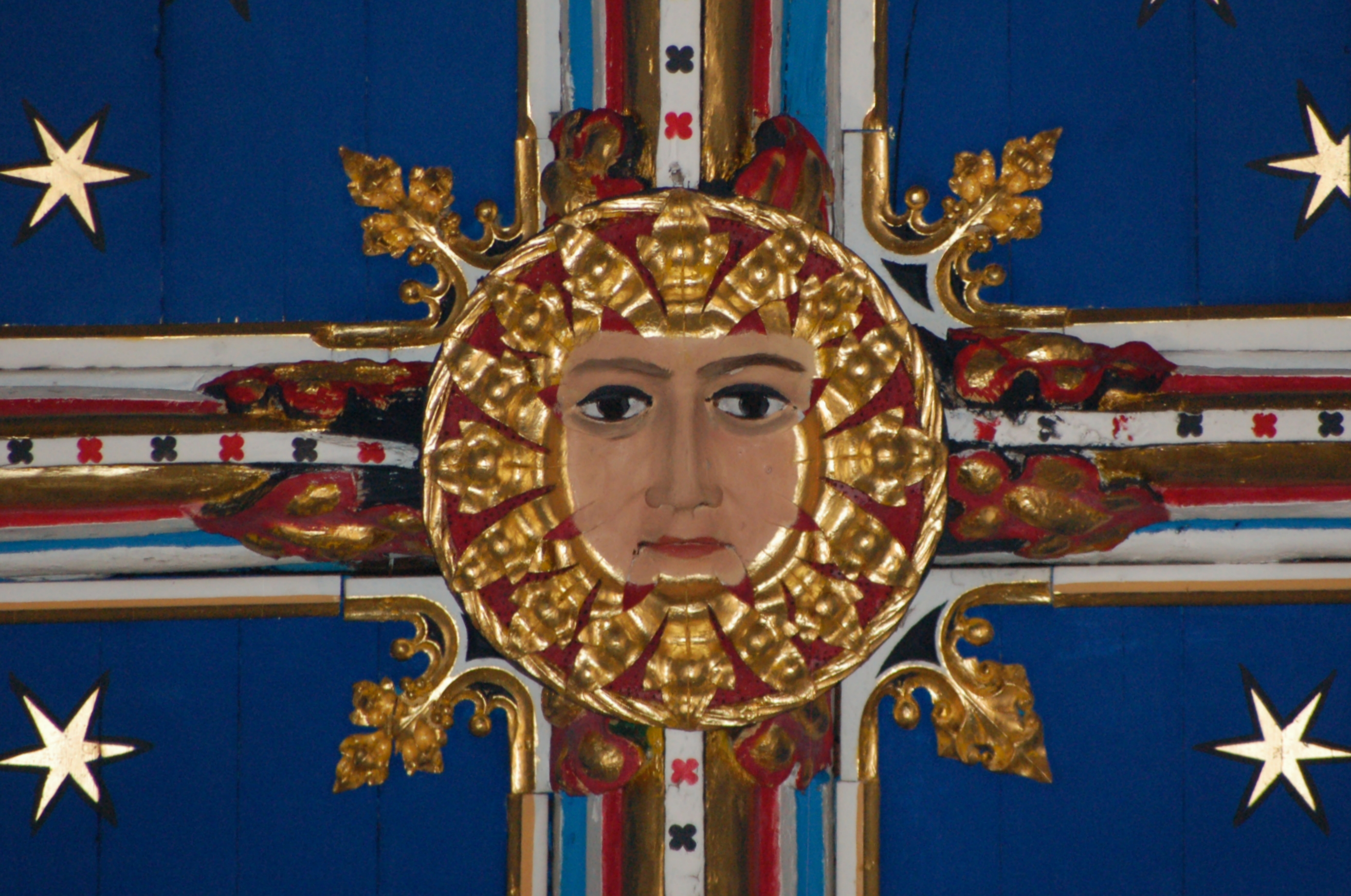 Photograph of the ceiling boss in the centre of the nave ceiling of Carlisle Cathedral